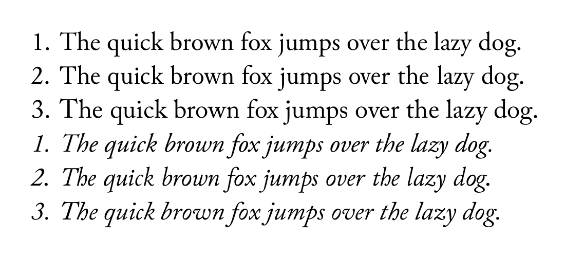 A comparison of the fonts (1) Adobe Garamond Pro, (2) Junicode, and (3) Adobe Caslon Pro. The image shows the gradual changes to type design between the 16th (Garamond), 17th (Junicode), and 18th (Caslon) centuries.